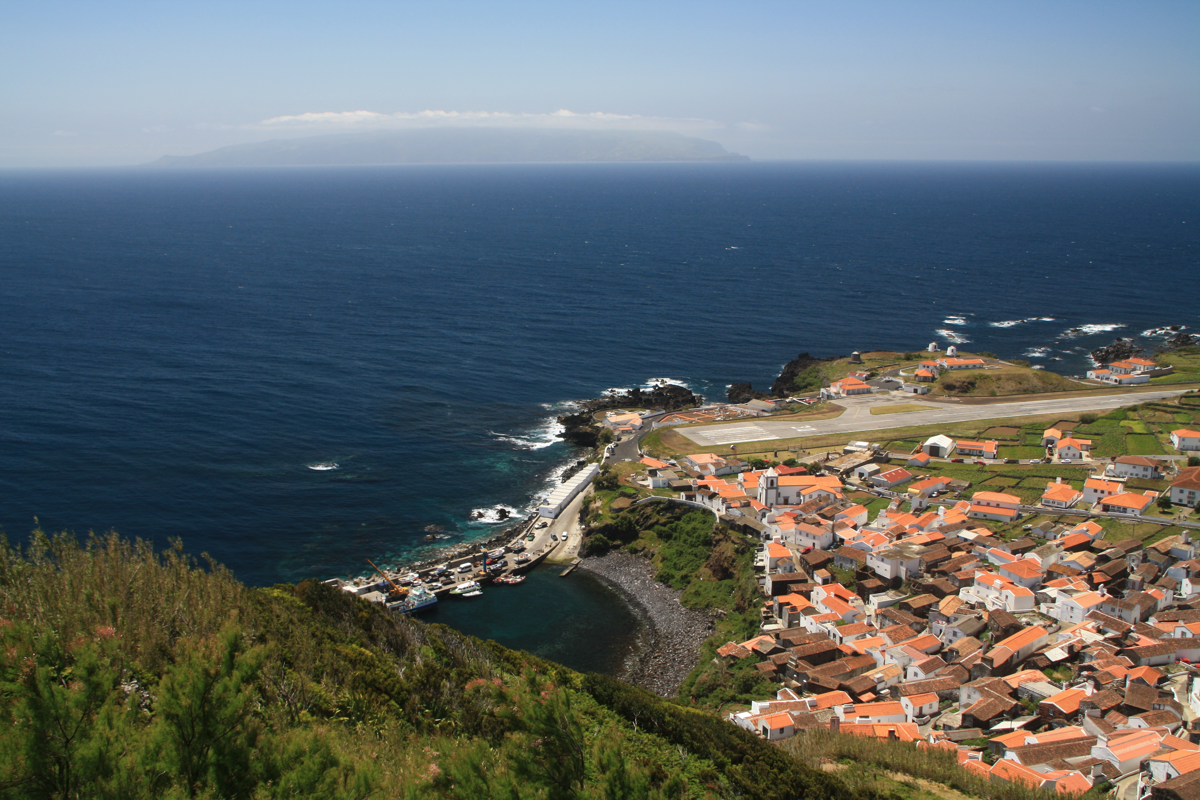 Vila Nova do Corvo, Azores